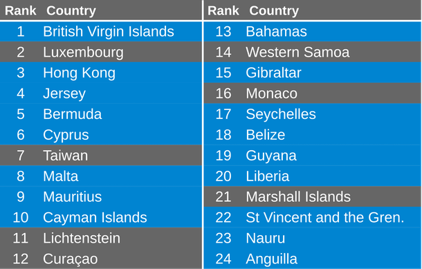 Table from the Uncovering Offshore Financial Centers: Conduits and Sinks in the Global Corporate Ownership Network